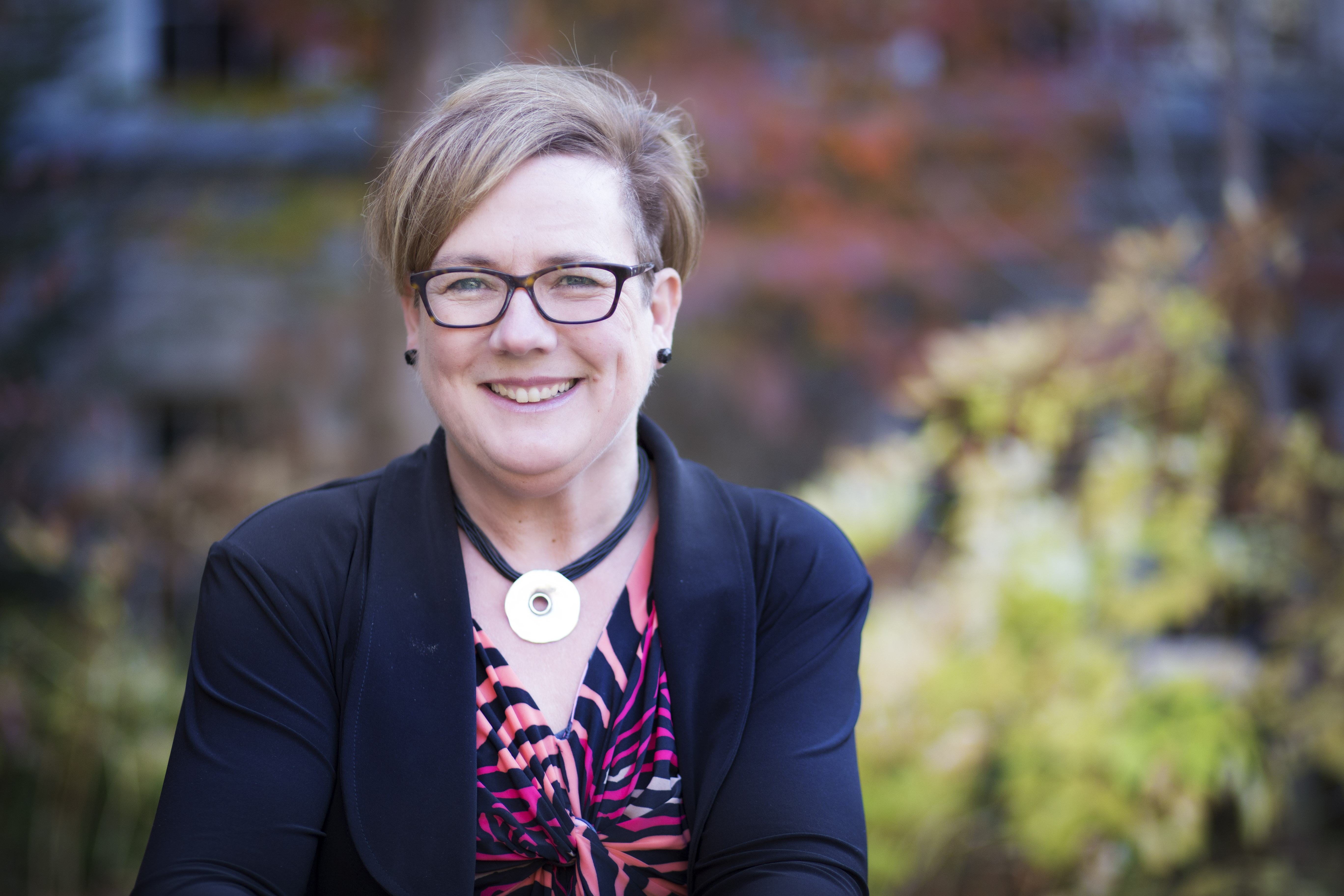 A photo of Samantha Brennan at Western University, taken by Ruth Kivilahti